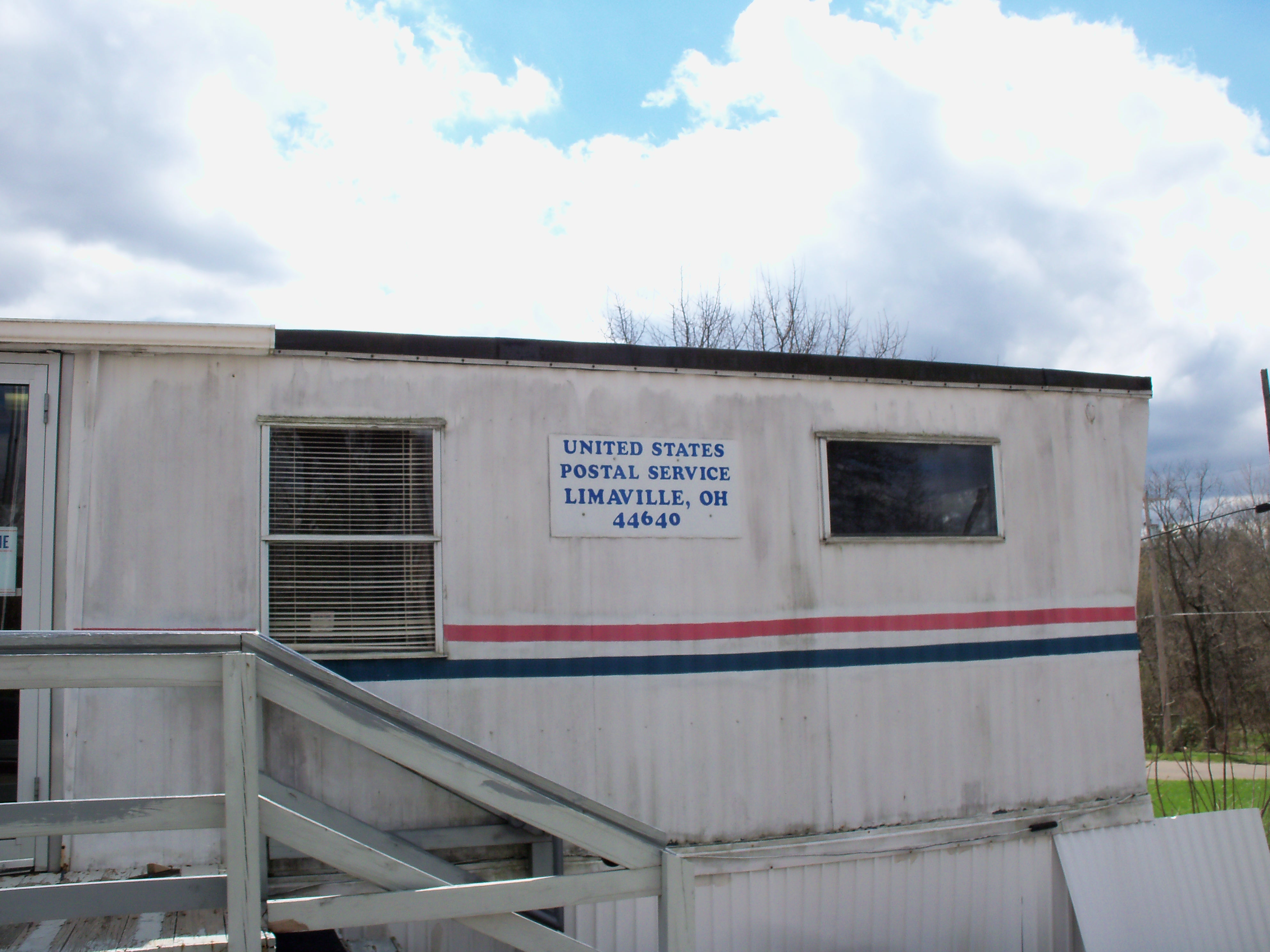 Post Office in Limaville, Ohio is housed in this Single-wide trailer